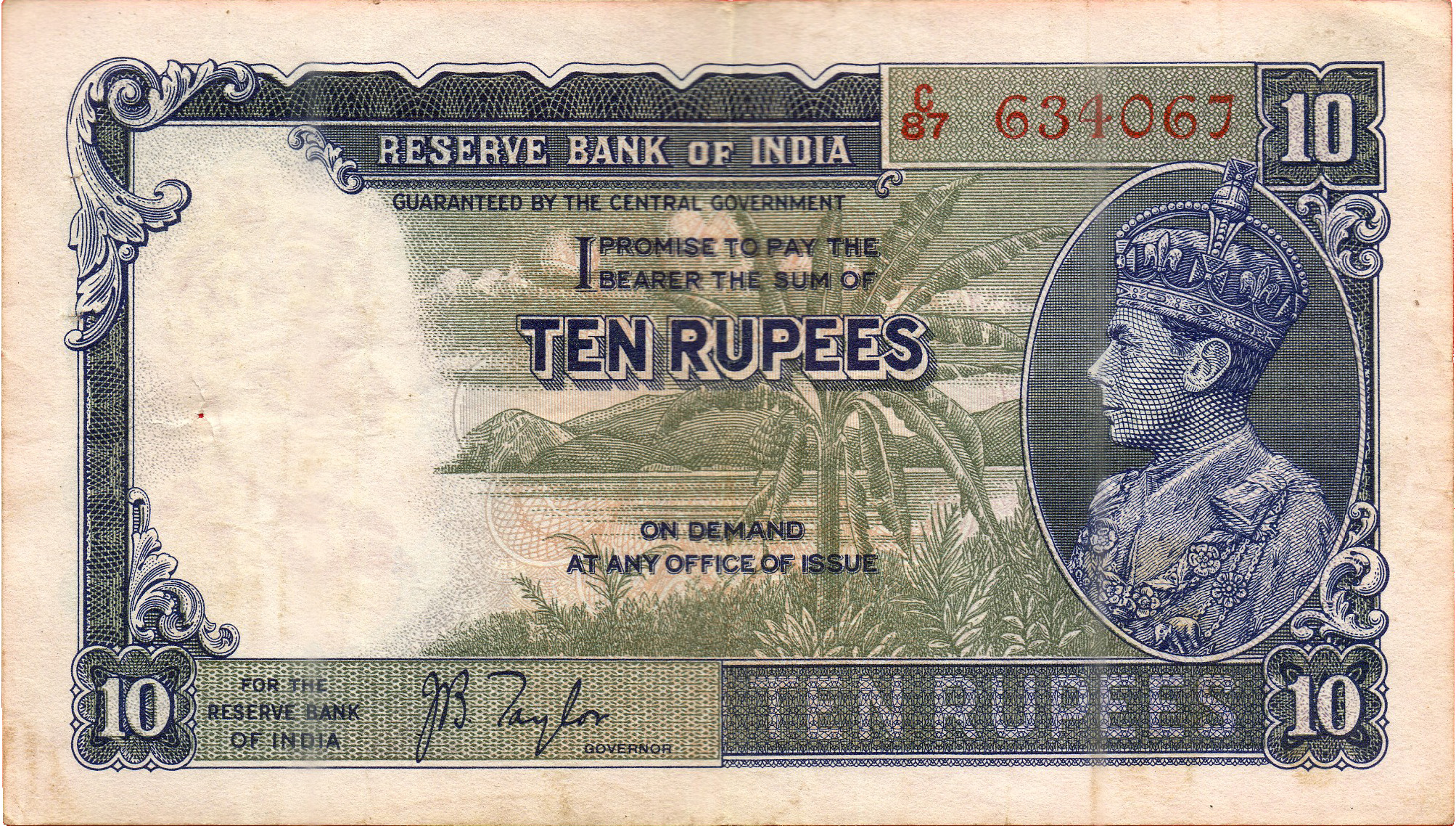 C-87 Series (1937-43) Indian Ten rupees banknote. Observe King George VI